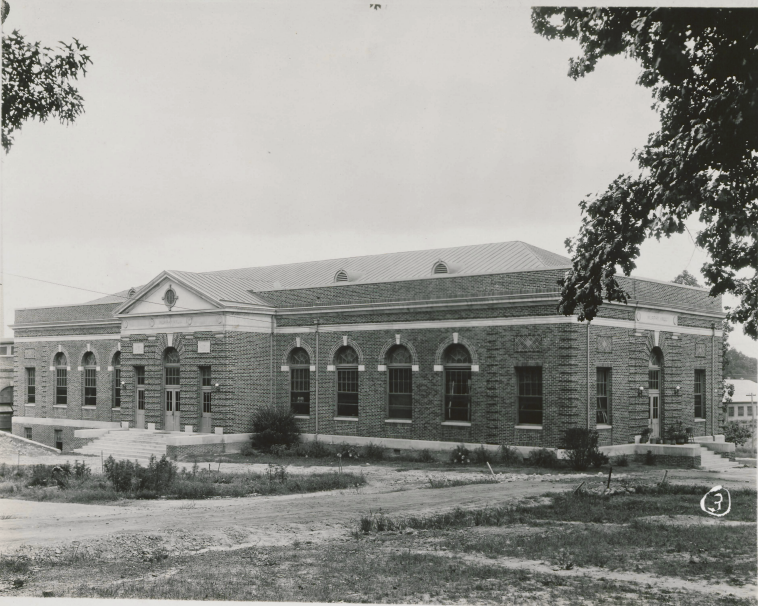 Murphy Hall Refectory on the Campus of the Negro Agricultural and Technical College of North Carolina, now North Carolina Agricultural and Technical State University; 1926